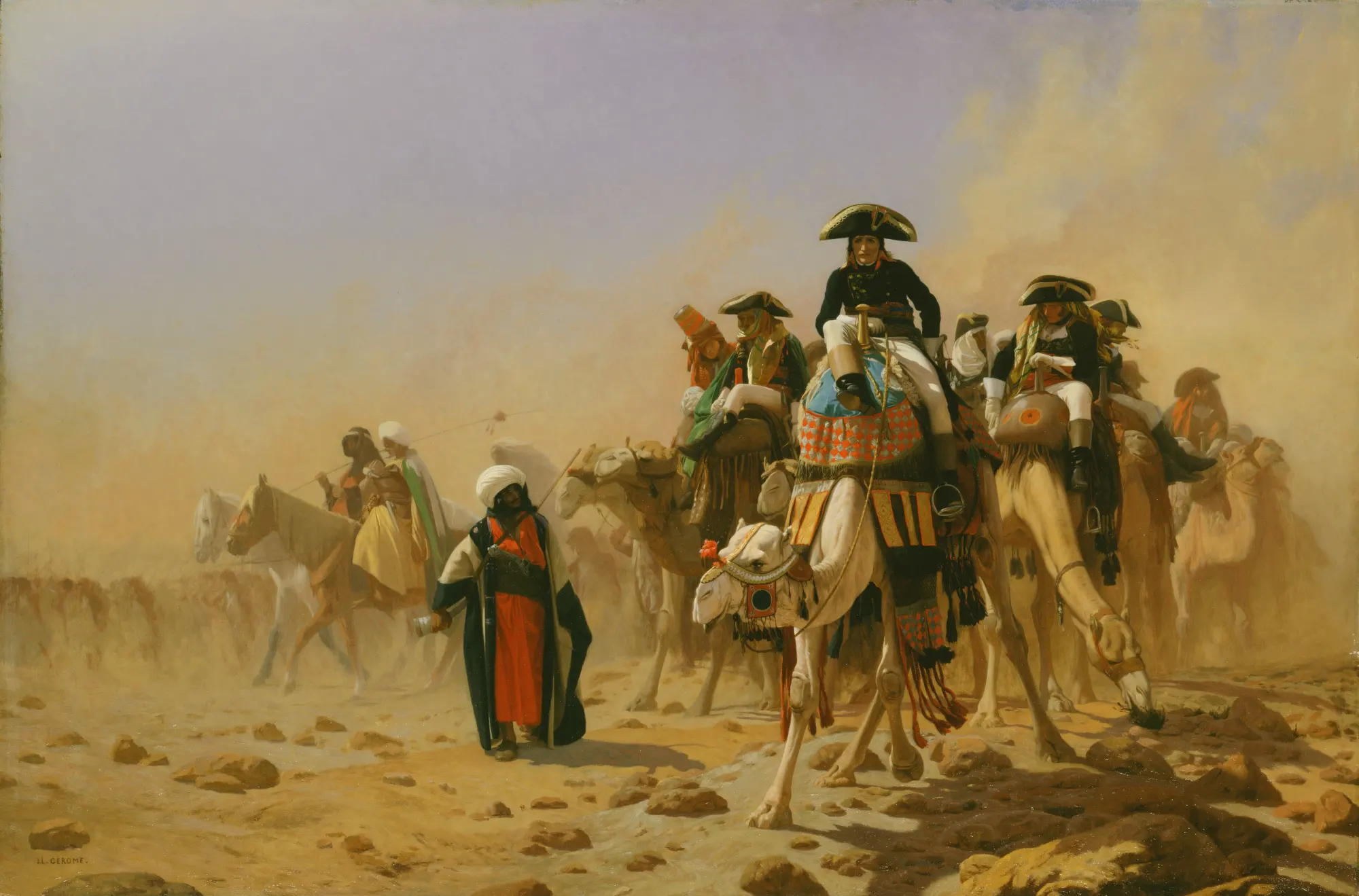 Jean-Léon Gérôme, Napolean and his General Staff in Egypt, c. 1867 (Museum of Western and Oriental Art, Kiev)